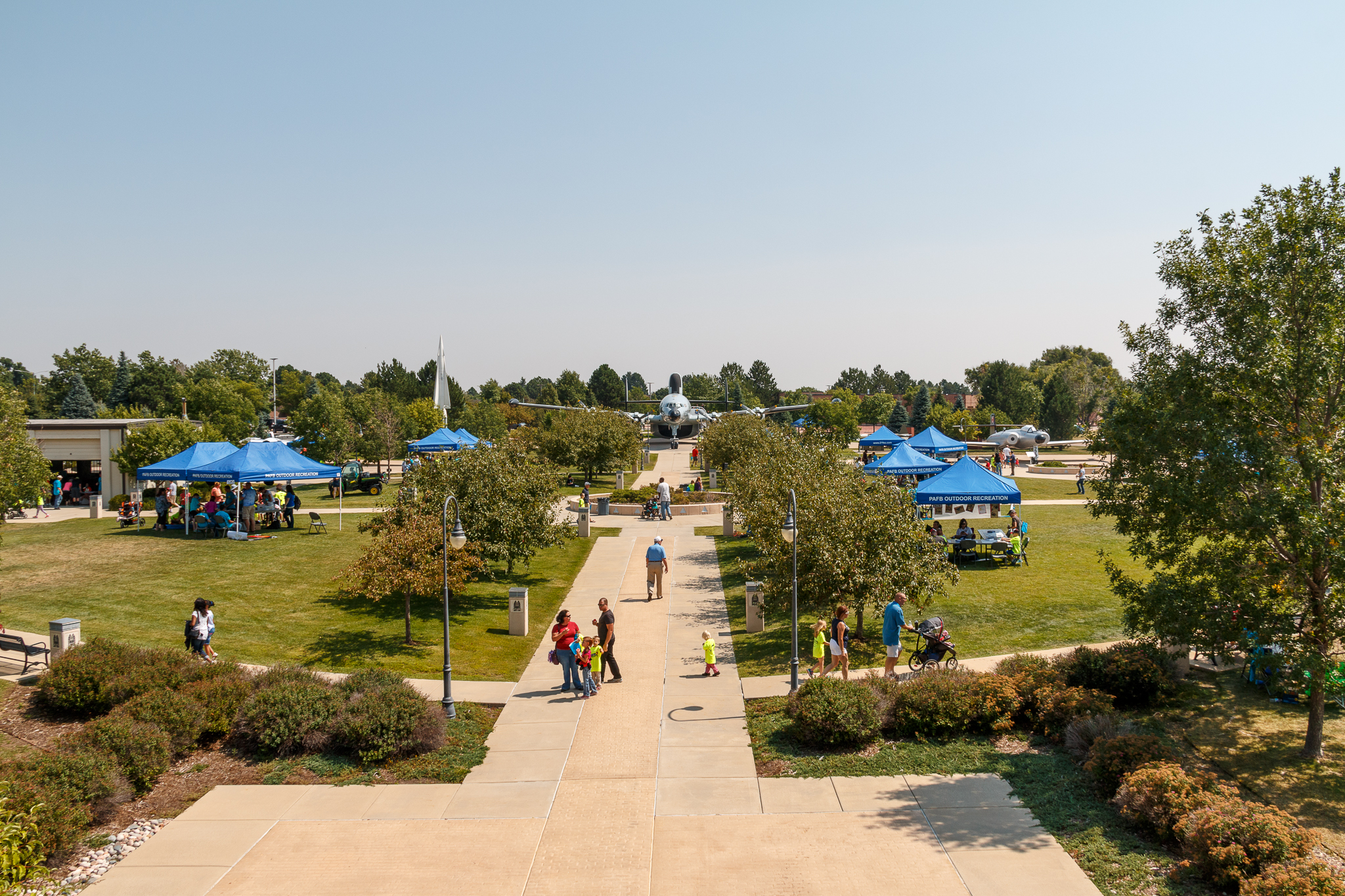 The PASM Air Park during the Science, Technology, Engineering, and Math (STEM) August 2015